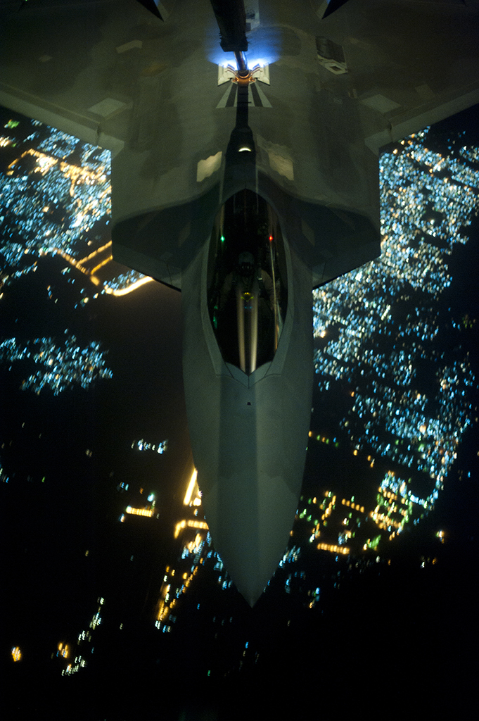 An U.S Air Force KC-10 Extender refuels an F-22 Raptor fighter aircraft prior to strike operations in Syria, Sept. 26, 2014. These aircraft were part of a strike package that was engaging ISIL targets in Syria. (U.S. Air Force photo by Tech. Sgt. Russ Scalf)